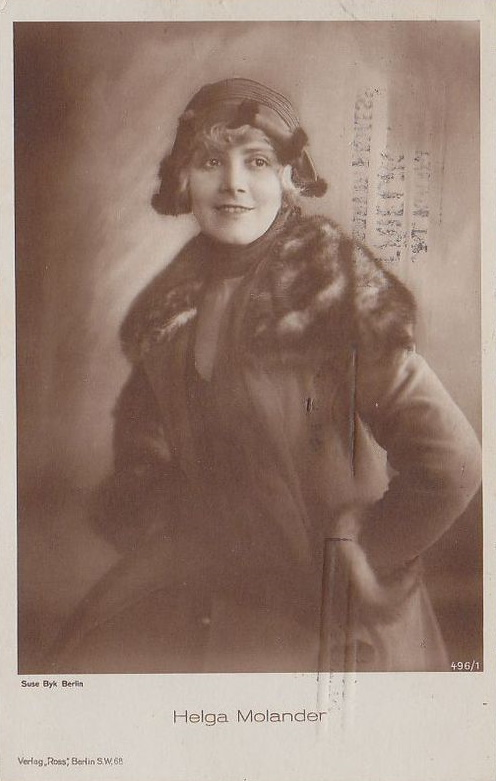 Postcard portrait of German actress Helga Molander (1896–1986) by Suse Byk.